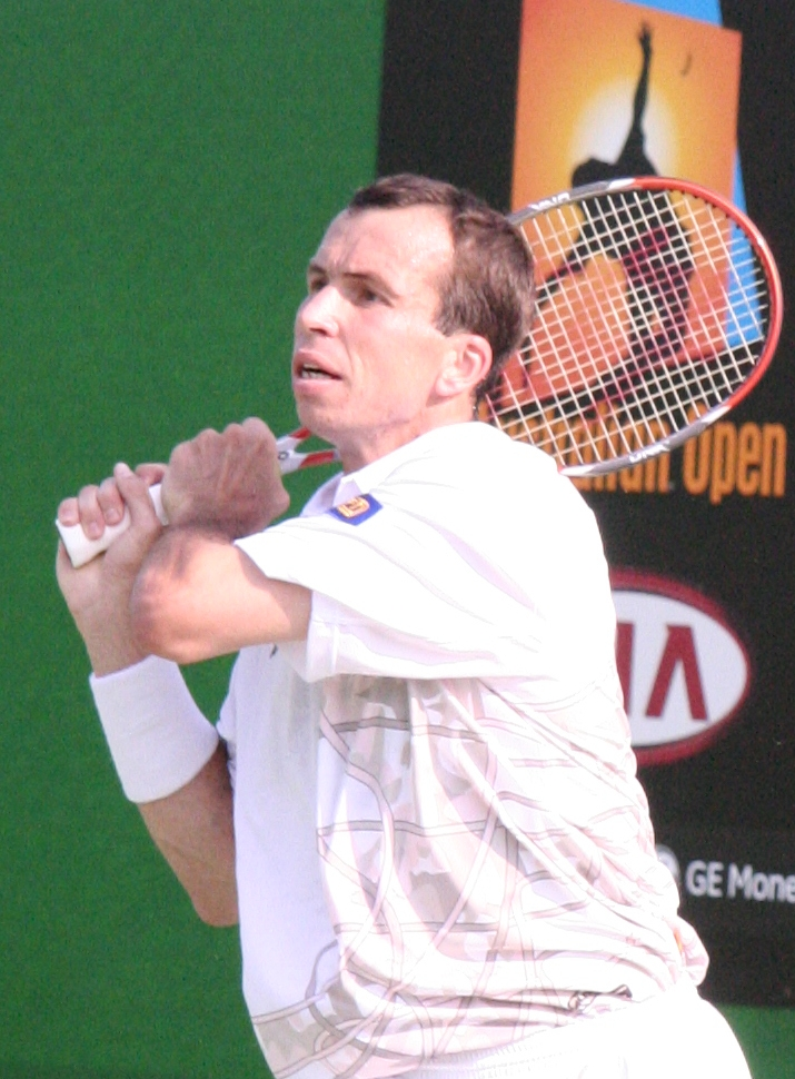 Radek Stepanek at their first-round match of the 2007 Australian Open.